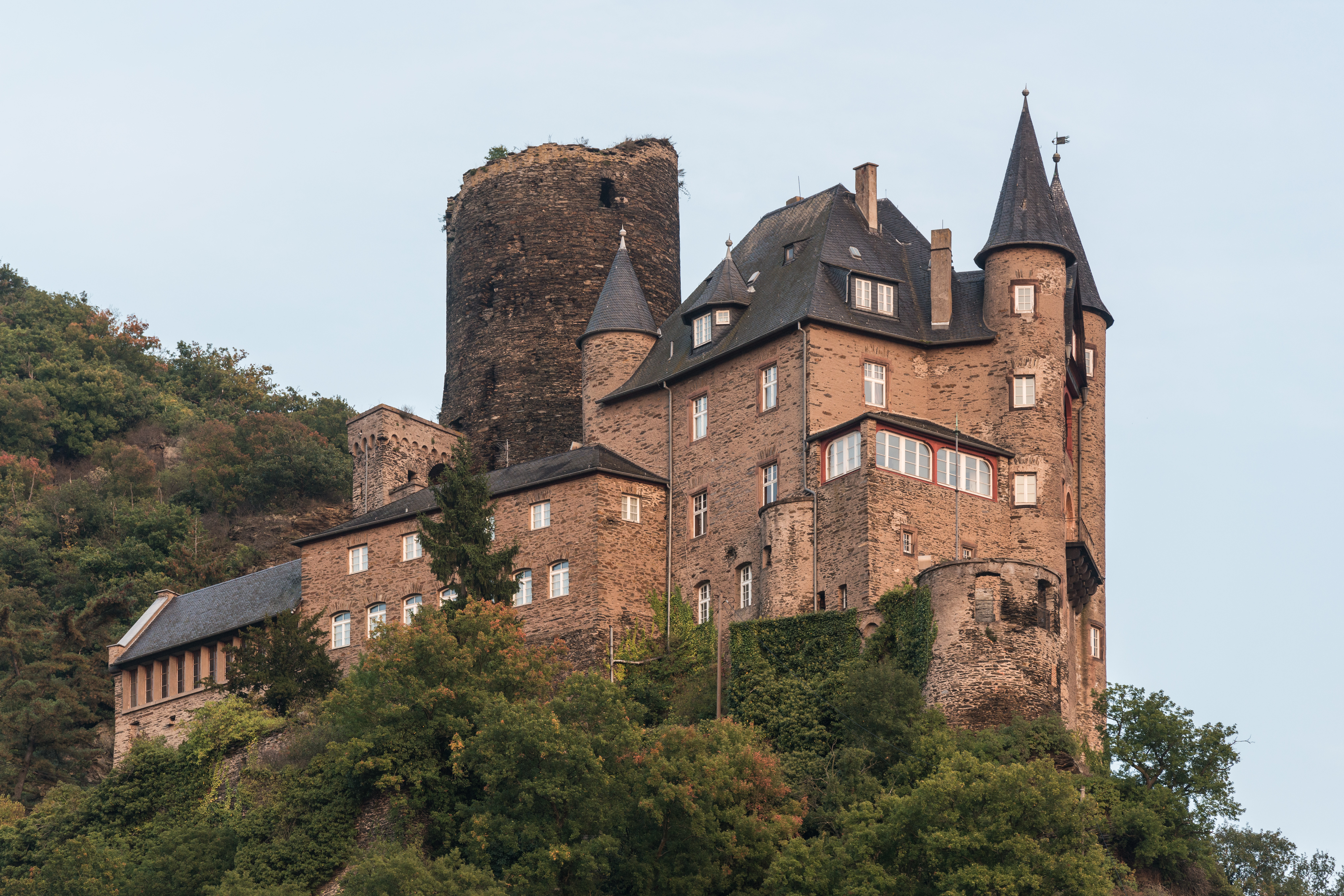 The Burg Katz as seen during sunset from west